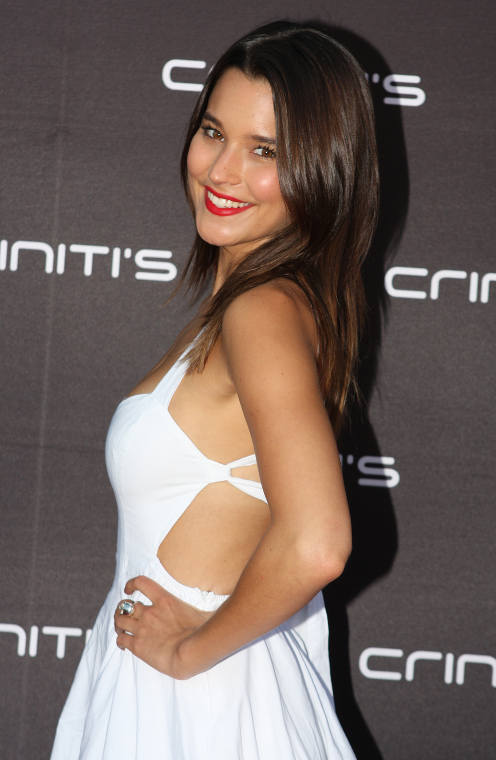 Criniti's celebrated their tenth birthday and rolled out the red carpet tonight. Celebrity guests were treated to their ten most popular dishes. Media... Walking the red carpet and celebrating Criniti's milestone birthday will be Australian television personality Charlotte Dawson, Australian singer Ricki Lee Coulter, Australian model Rachael Finch, former rugby league player Jason Stevens, Roosters star Anthony Minichiello, as well as Home & Away stars Dan Ewing, Rhiannon Fish and Lisa Gornley, The Living Room's Barry Du Bois and Miguel Maestre, The Morning Show's Lizzy Lovette, MTV's Keiynan Lonsdale, Jason and Beck Stevens from Sydney Weekender, Michelle and Martin Walsh from Chadwicks, as well as player from Sydney FC, Manly Sea Eagles and the Roosters. The celebrations will continue as one lucky person will win an all-expenses paid trip to Rome worth over $10,000, plus a three litre bottle of Veuve Clicquot. 2012 X Factor winner, Samantha Jade, will be entertaining guests on the night, with an intimate performance of her number one hit single What You've Done to Me. Celebs: Charlotte Dawson, Ricki Lee Coulter, Rachael Finch, Anthony Minichiello, Dan Ewing and more. Websites Criniti's Eva Rinaldi Photography Eva Rinaldi Photography Flickr